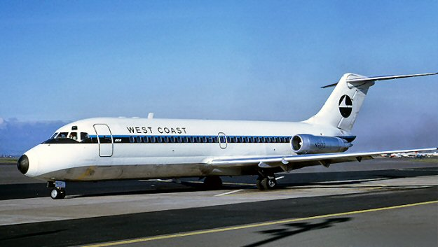 An image of a McDonnell Douglas DC-9 belonging to the now defunct American airline West Coast Airlines. For the article on West Coast Airlines Flight 956.